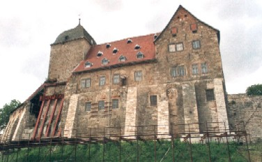 Runneburg - hall